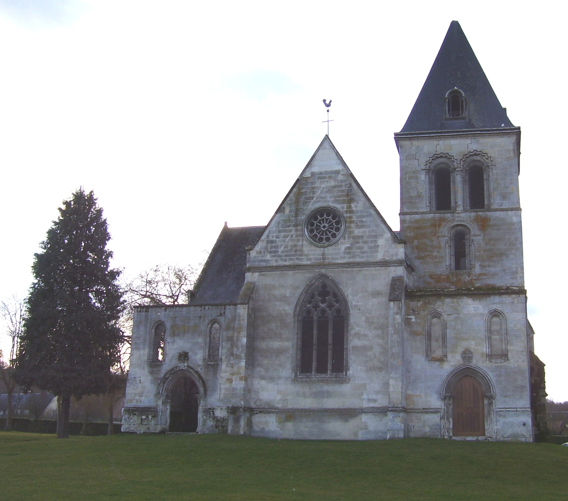 Cemetery church Saint-Denis in Brionne, departement Eure, Normandie, France. Was used untill 1790. The building was damaged by bombs during WWII 1944 and is used as a gymnasium today.